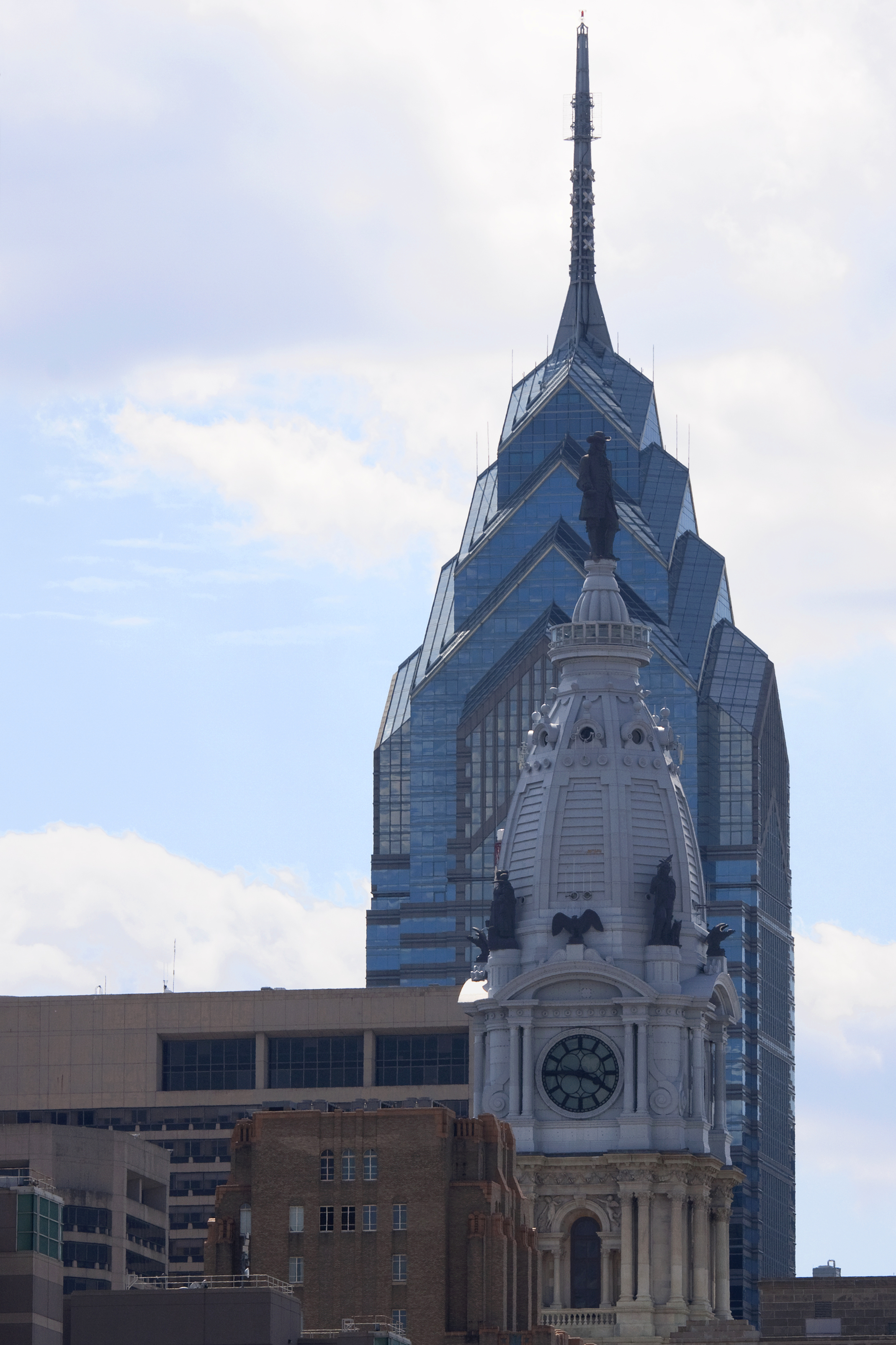 Two of Philadelphia's former highest structures stand side by side in this photograph. In front we have the tower of City Hall and in the back One Liberty Place.